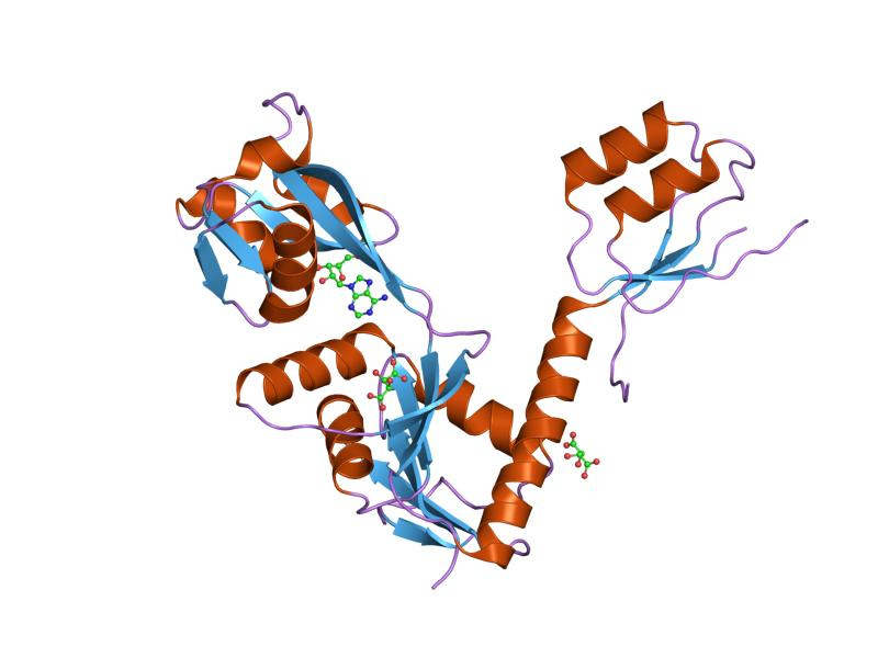 Cartoon representation of the molecular structure of protein registered with 1h3d code.